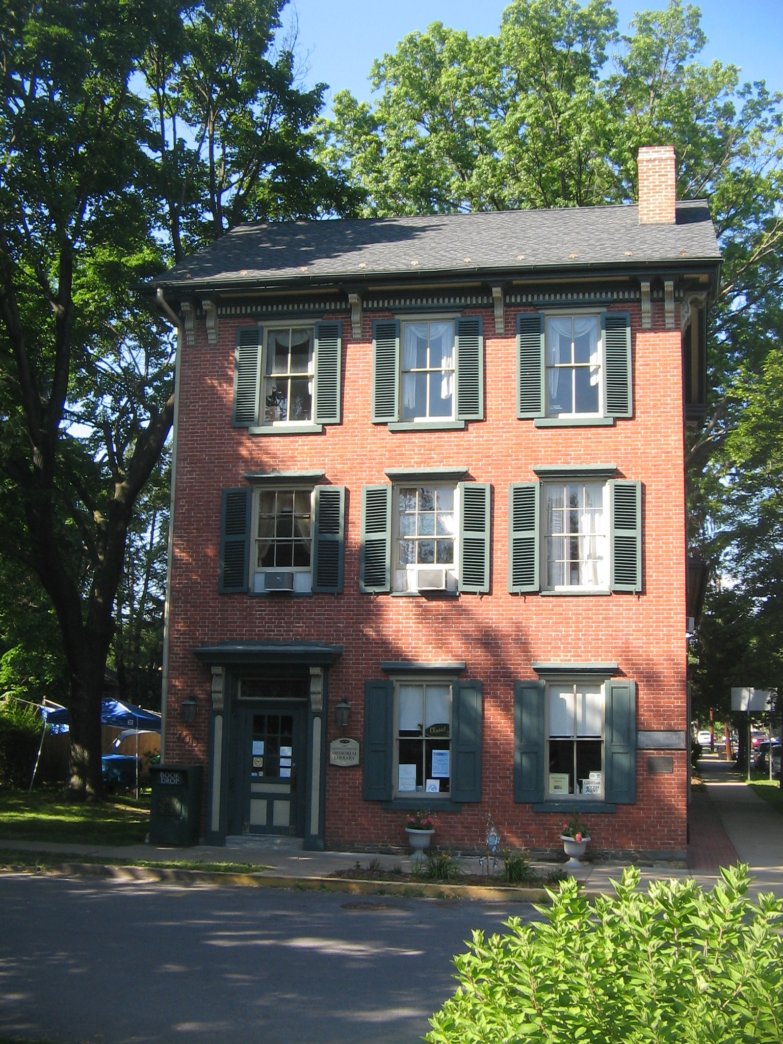 The Priestley-Forsyth Memorial Library in Northumberland, Northumberland County, Pennsylvania, USA. It serves as the Northumberland Publis Library and is listed on the National Register of Historic Places.